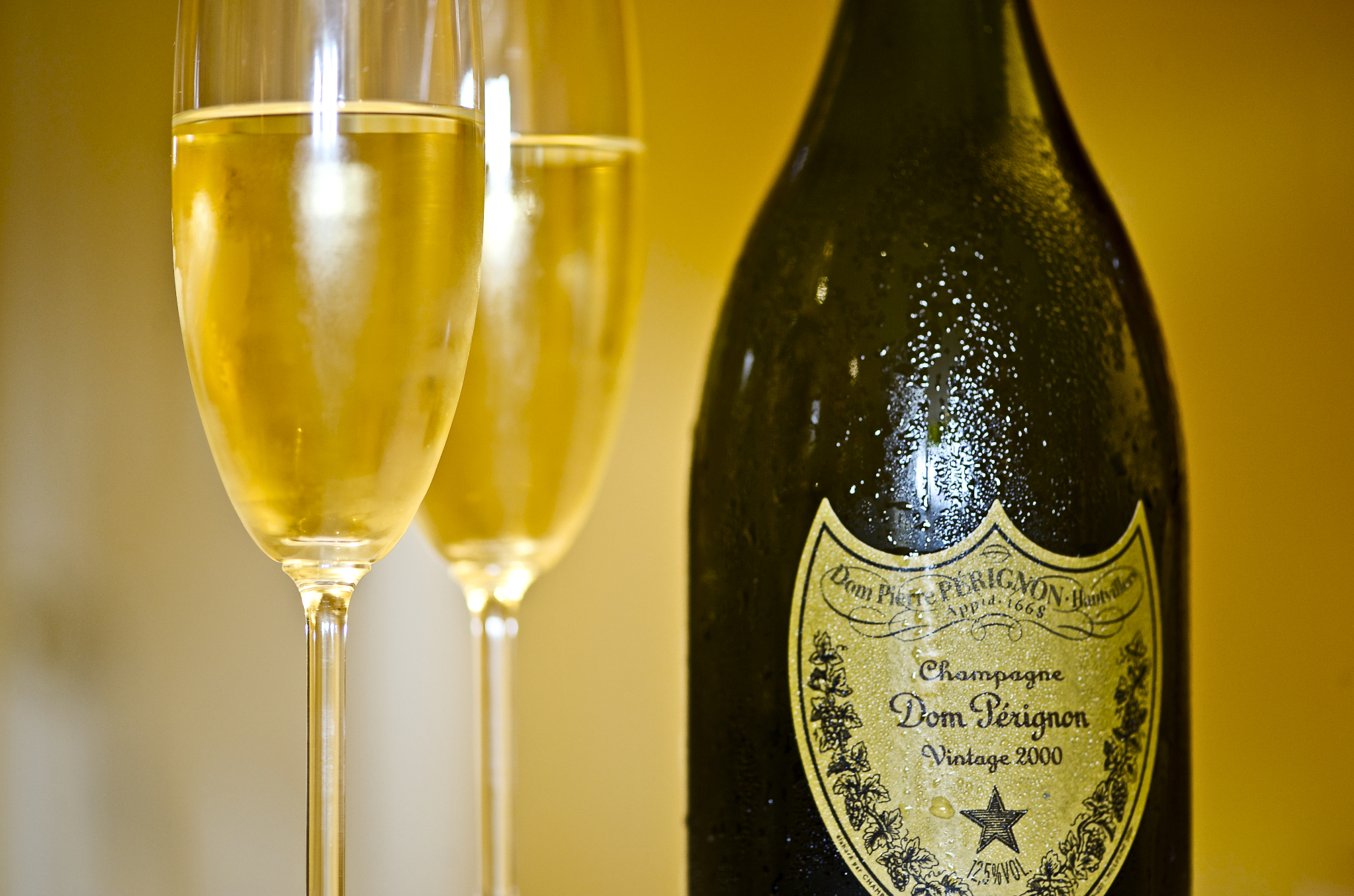 Dom Pérignon